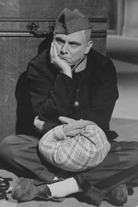 Francisco Charmiello-actor argentino